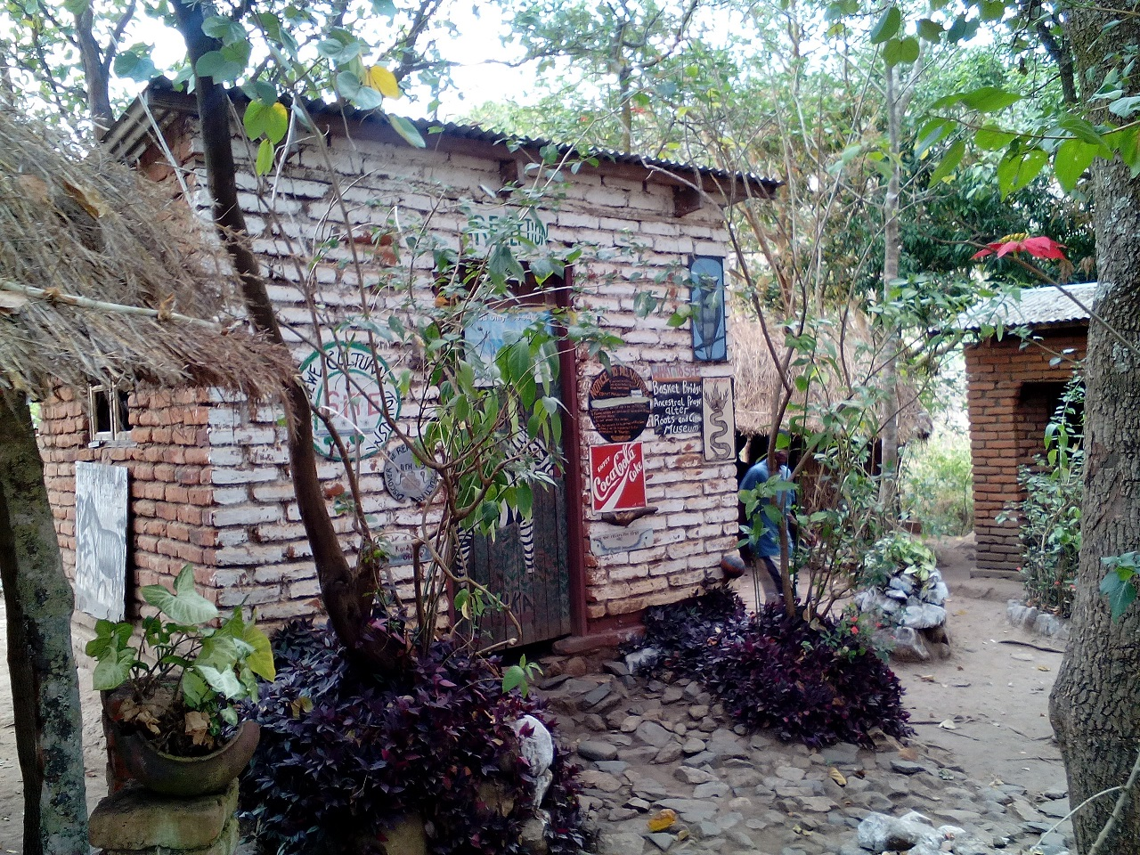 Kandewe Community Tourism Project, located in Rumphi, northern Malawi. They promote Phoka culture, among other things.